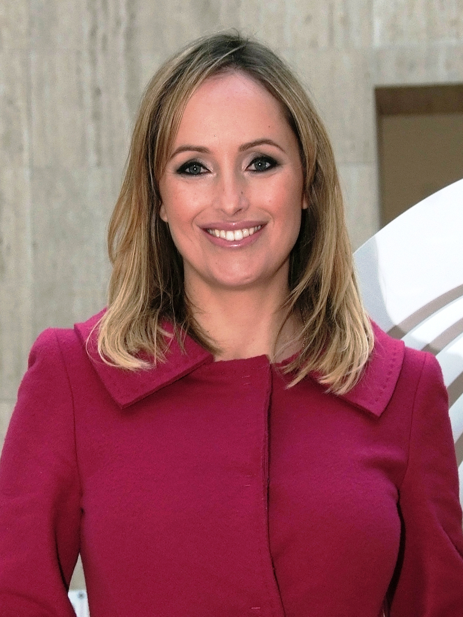 Model and actress Marisa Cruz at an Exponor exhibition, in Porto, Portugal.